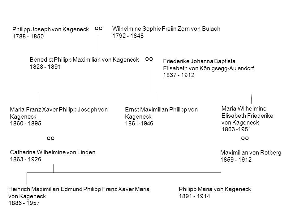 Genealogy of the Stegen line of the von Kageneck familiy, Stegen-Weiler, Germany